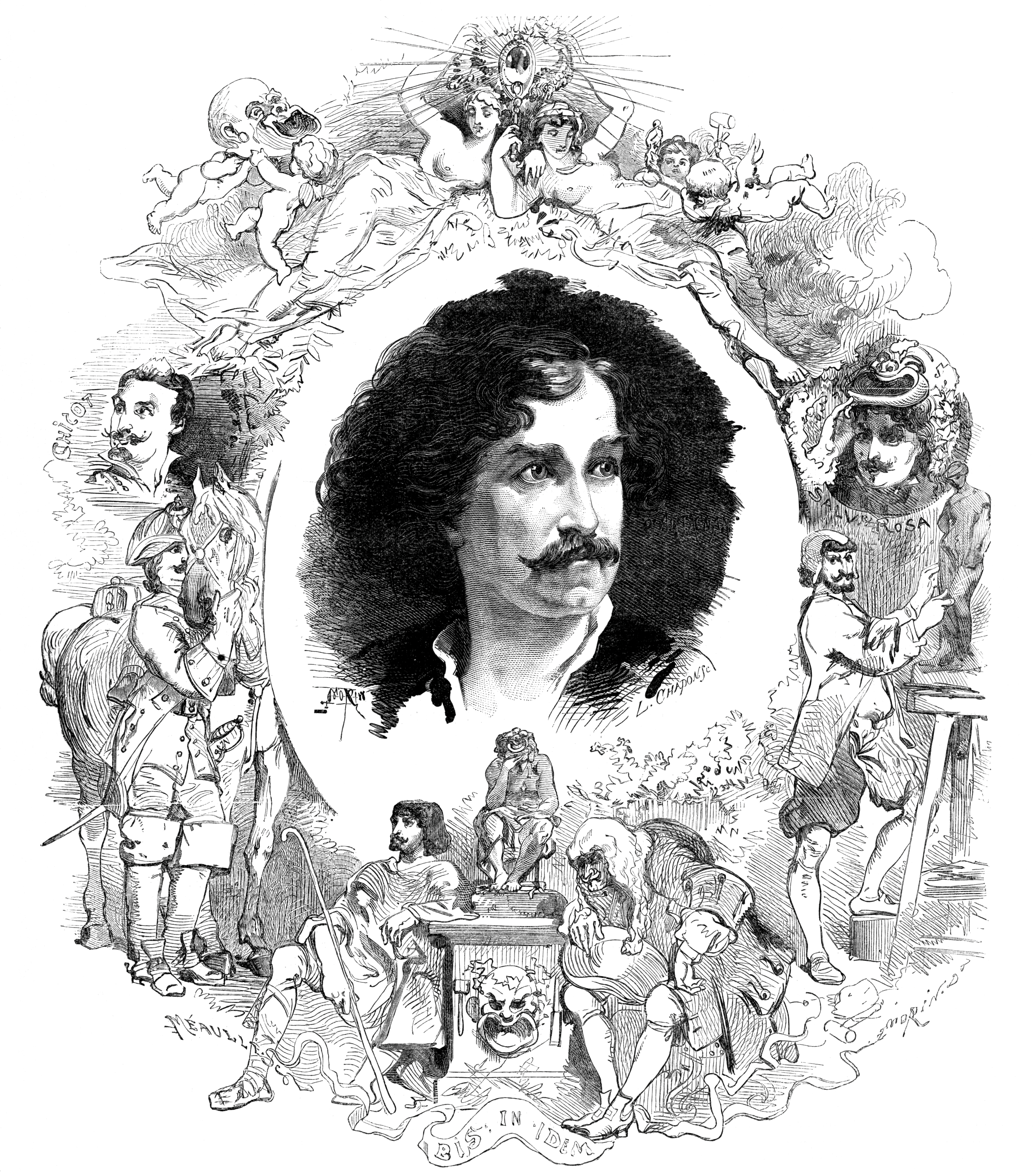 Drawing of Étienne Marin Mélingue (1807–1875), French actor and sculptor by Edmond Morin after Adolphe Yvon engraved by Léon-Louis Chapon for Le Monde illustré on his death.